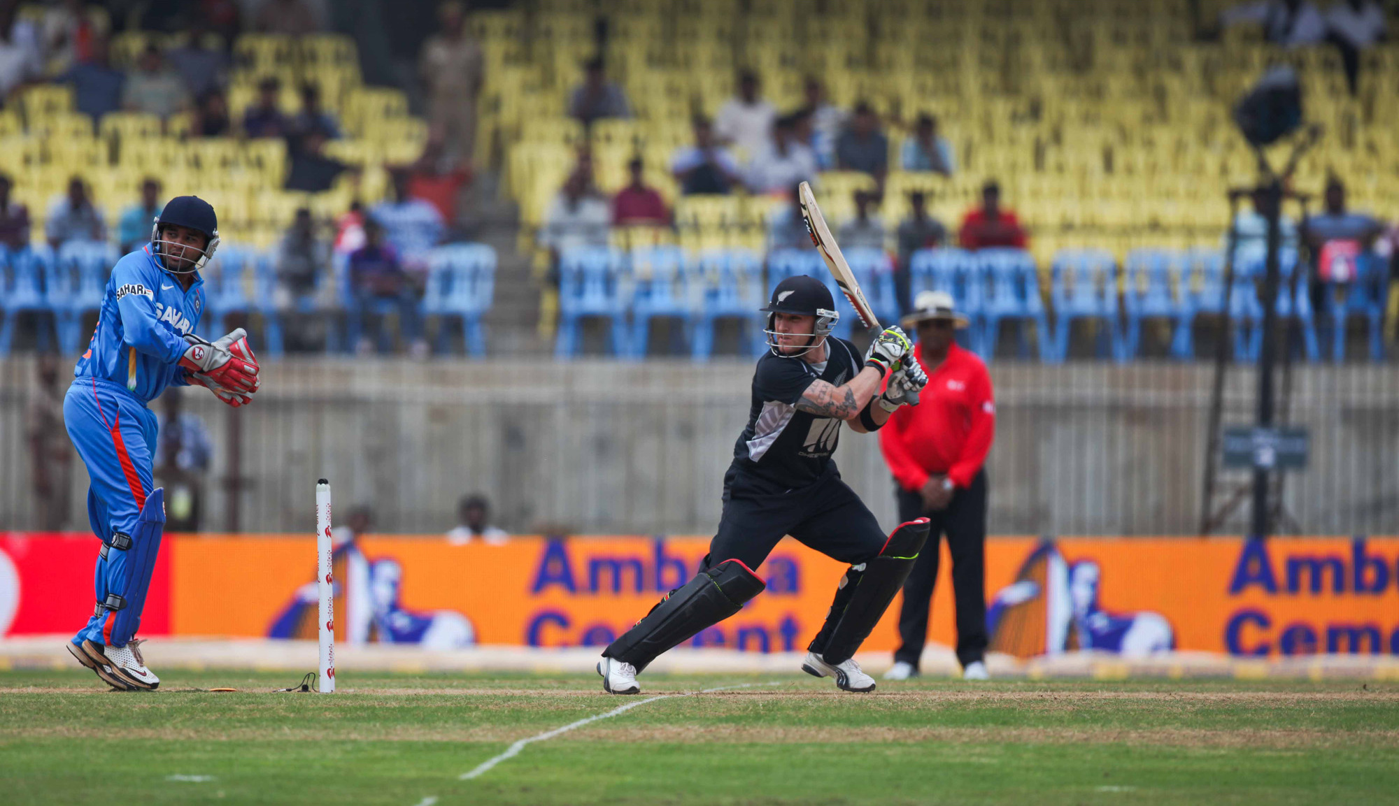 Parthiv Patel keeping wickets, Brendon McCullum batting, India Vs New zealand One day International, 10 December 2010